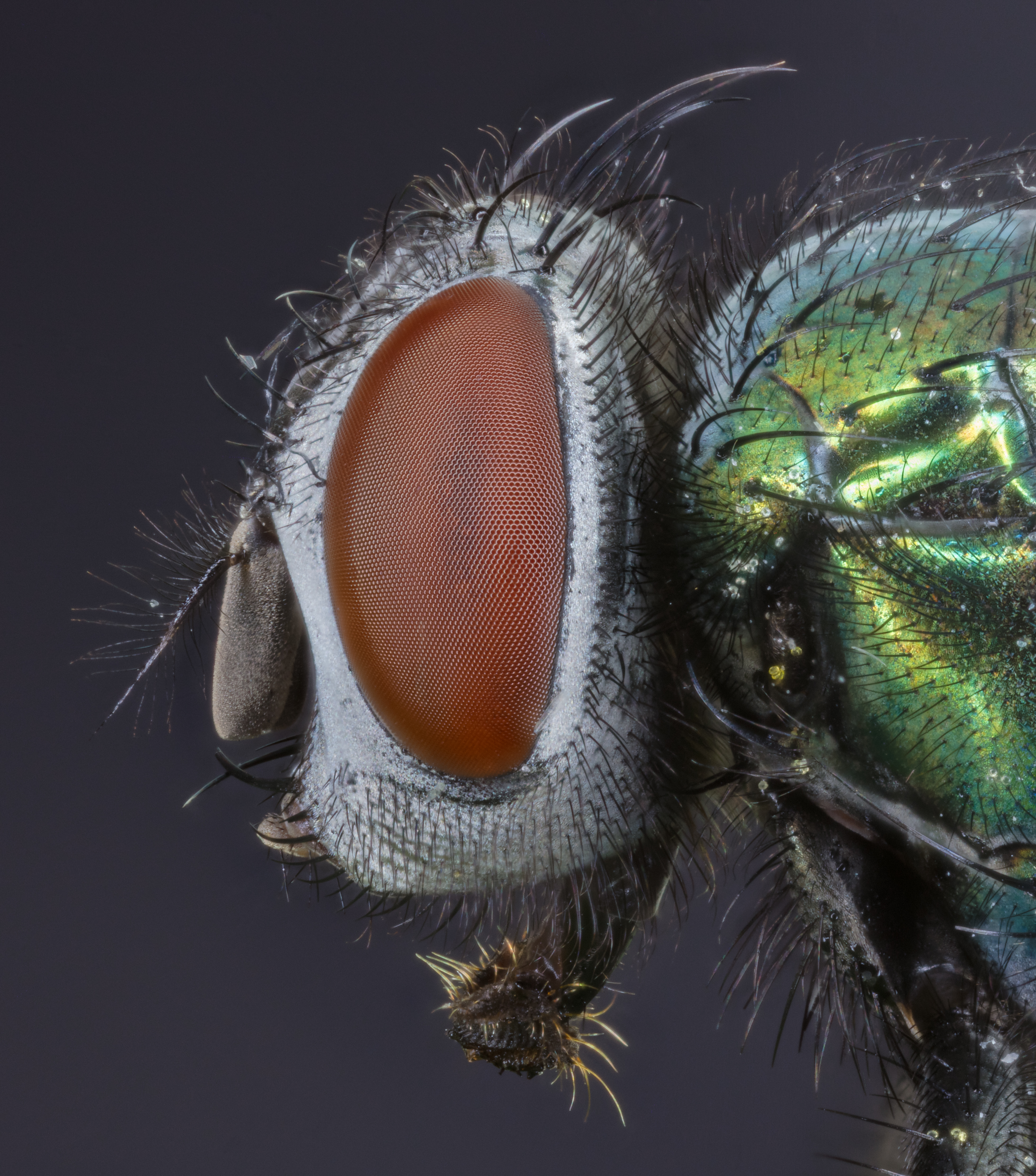 Common green bottle fly (Lucilia sericata), Hartelholz, Munich, Germany